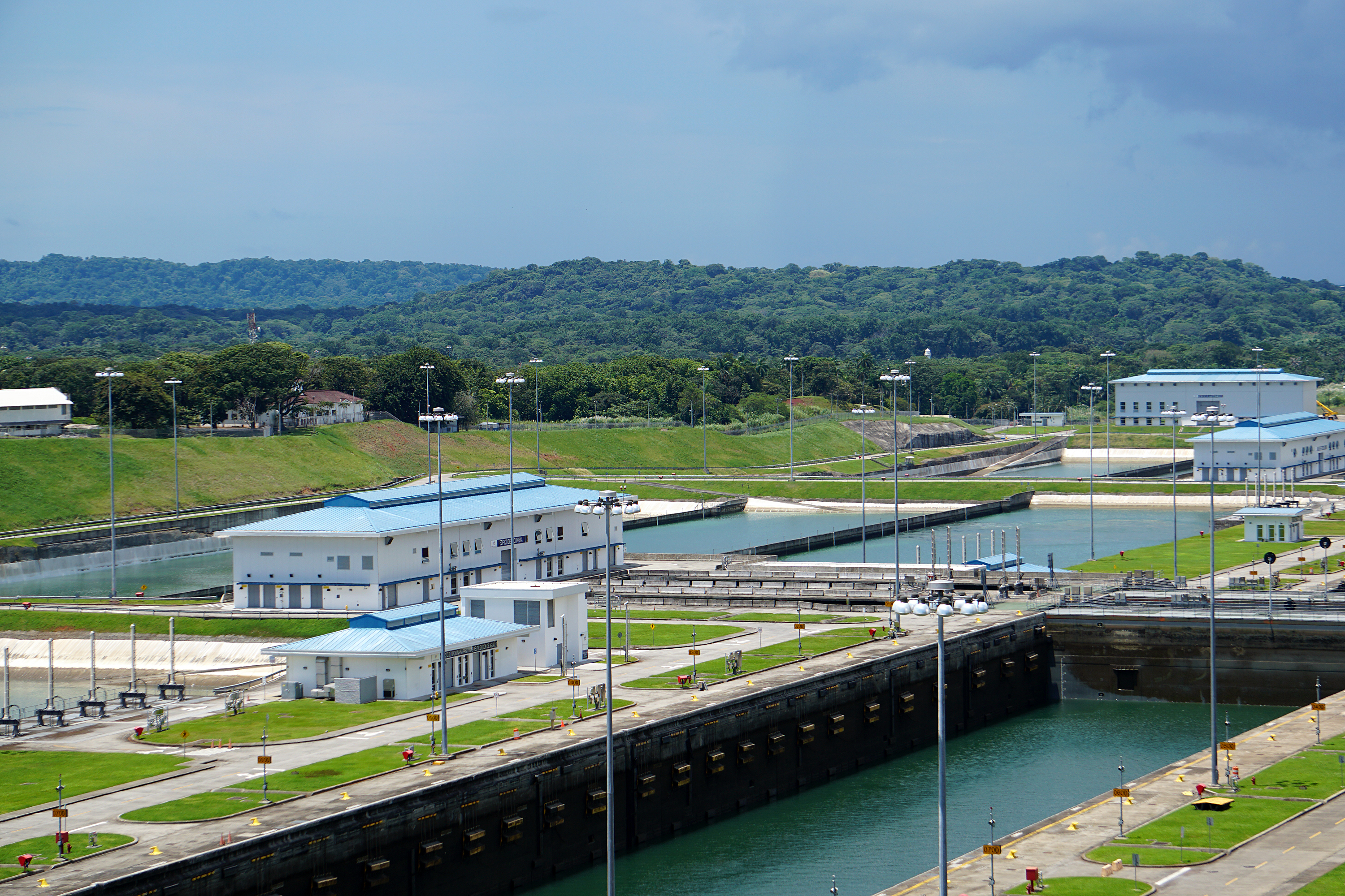 Central and northern (in the background) water-saving basins of the Agua Clara Locks, left of the canal locks. Gatún, Panama Canal